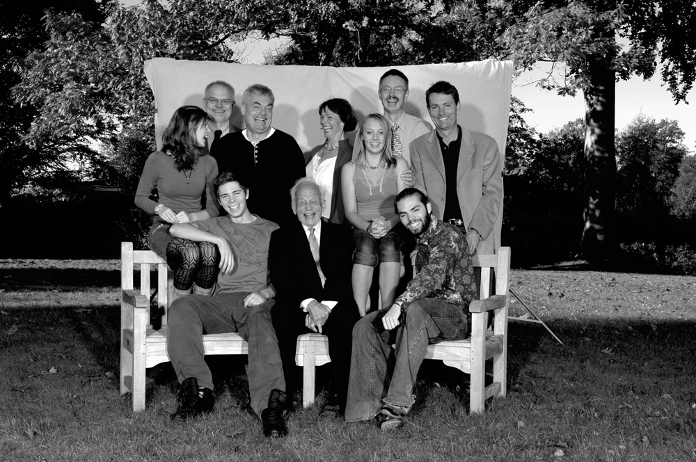 Nielsen/Aagaard family